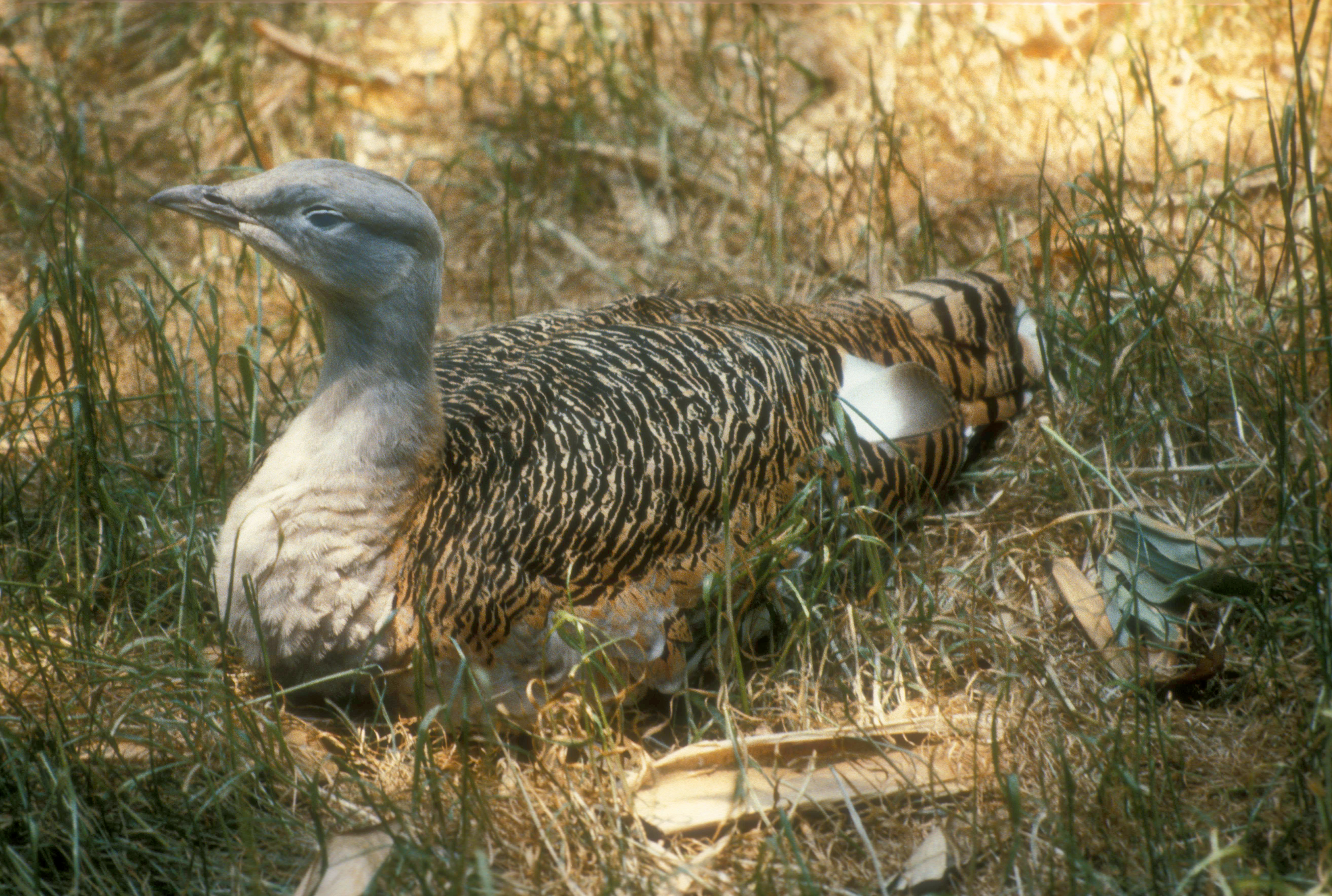 EASTERN GREAT BUSTARD FROM MANCHURIA/MONGOLIA (OTIS TARDA)